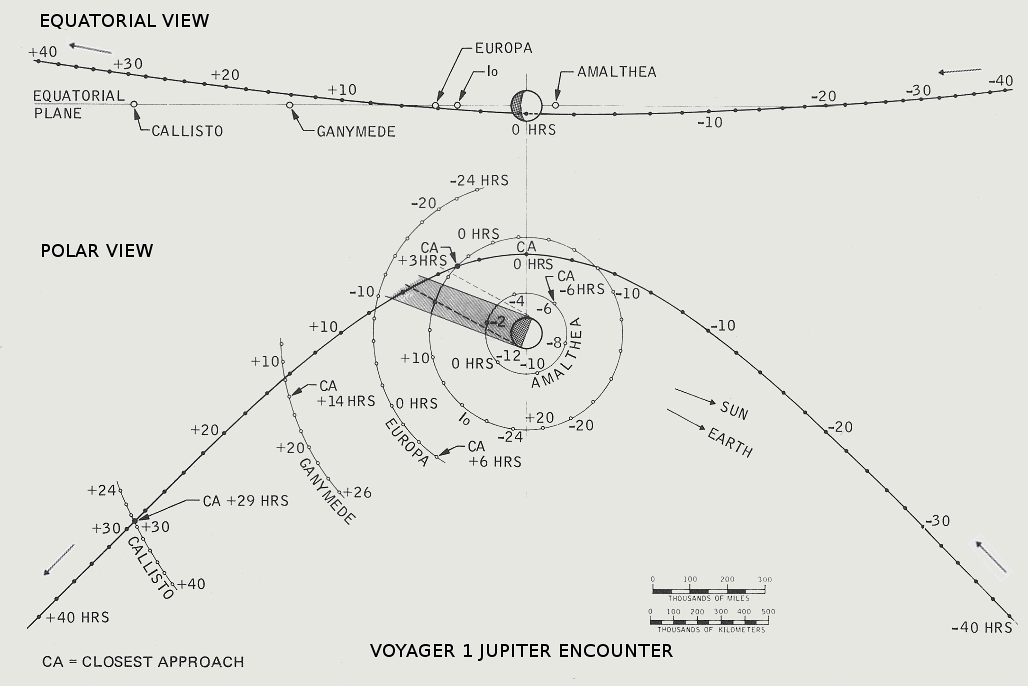 Voyager 1 trajectory in Jupiter System, March 3 - 6, 1979.